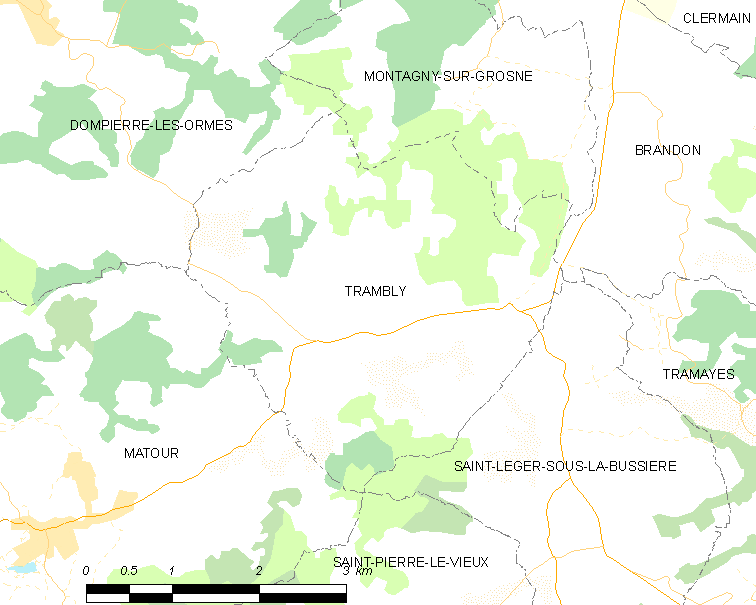 Map of French municipality